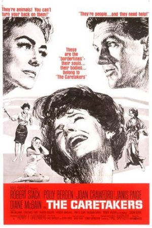 Theatrical poster for the film The Caretakers (1963).